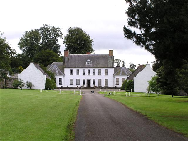 Springhill House, Moneymore Springhill has a beguiling spirit that captures the heart of every visitor. Described as one of the prettiest houses in Ulster, its welcoming charm reveals a family home with portraits, furniture and decorative arts filling the rooms. It’s a simple but very pretty 'plantation' house with over 300 years of intriguing history, as well as magnificent gardens. Expert guides will add to the mysterious allure with stories of the friendly ghost, Olivia. The old laundry houses one of Springhills most popular attractions, the Costume Collection. The collection has some exceptionally fine 18th to 20th century pieces and is a fascinating mix of colourful haute couture and everyday accessories. An annually changing display is exhibited in the recently refurbished Costume Museum. No visit is complete without also enjoying the beautiful walled gardens or the beech tree walk.